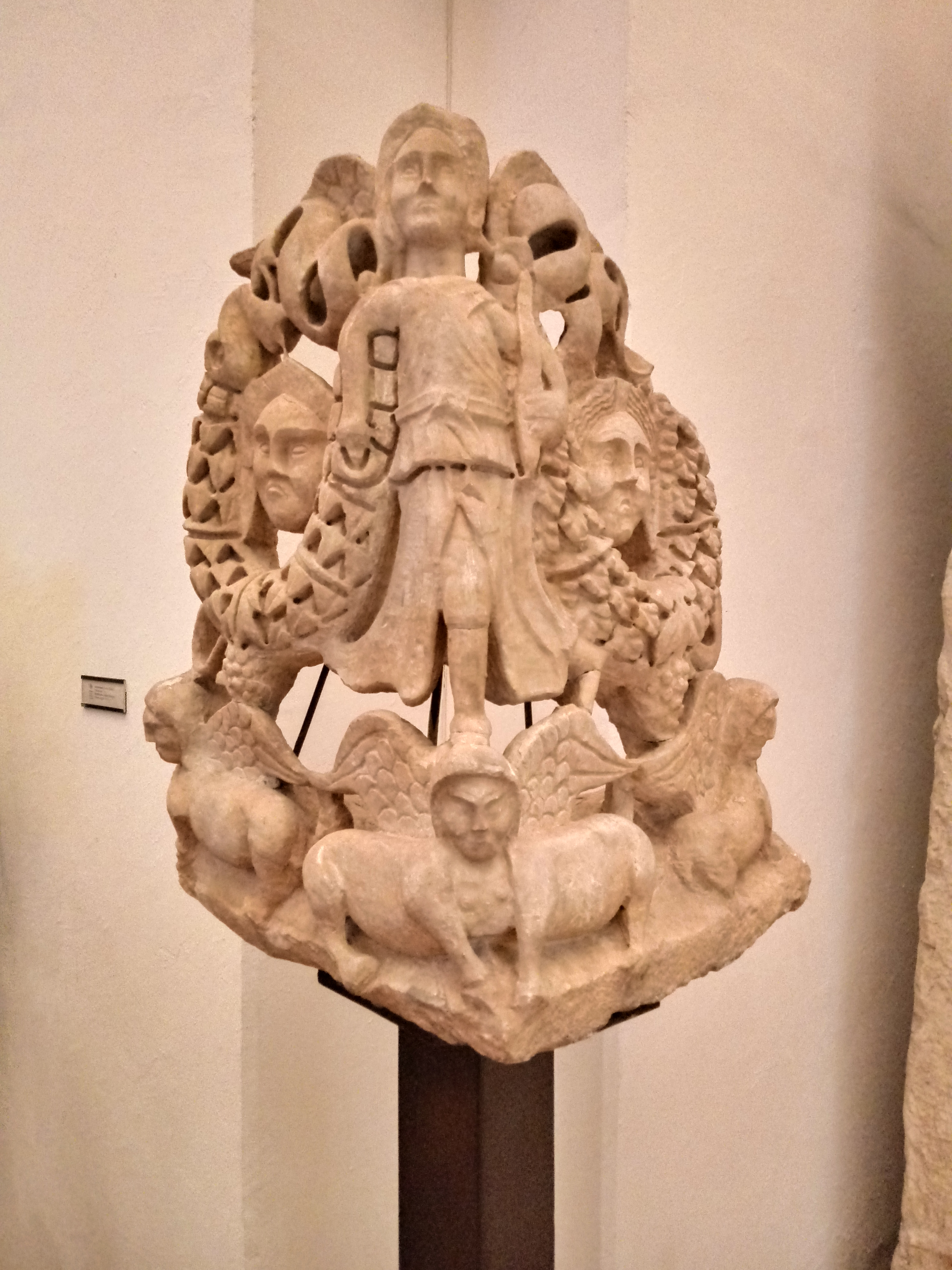 National archaeological museum Sofia - acroterion from the Sanctuary of the Nymphs - Kasnakovo, Haskovo Province, 2 century AD